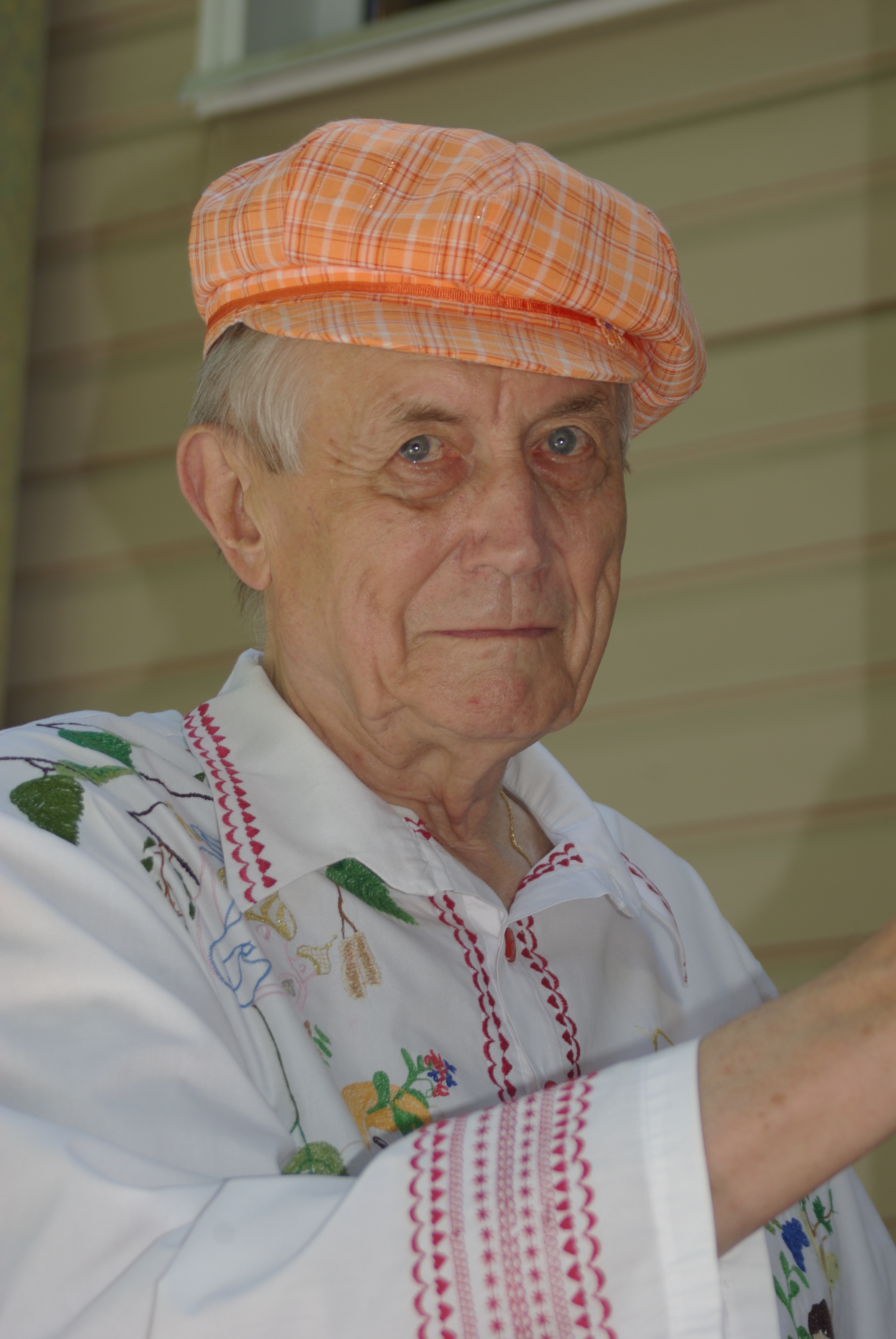 Yevtushenko at the opening of his museum at Peredelkino, July 7, 2010